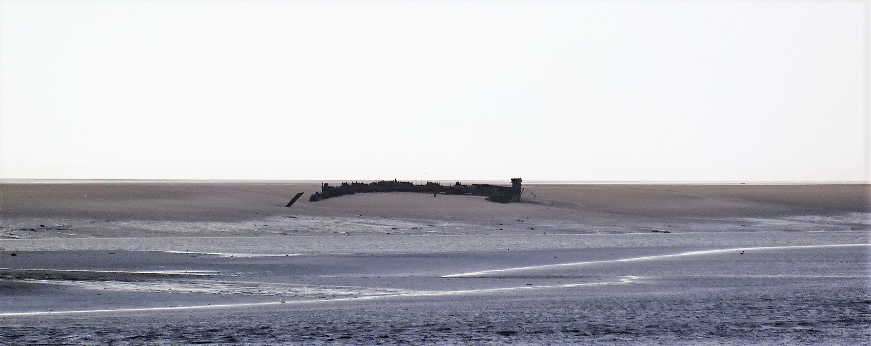 The SV Paul wreck, Cefn Sidan Sands, South Wales